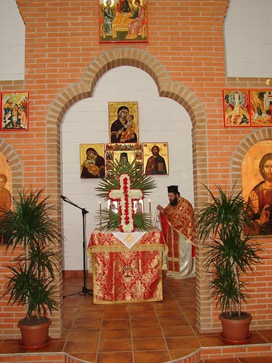 Holy Cross Sunday in the parish church of St. Nectarios the Wonderworker, Coslada, Madrid (a Romanian Orthodox church)